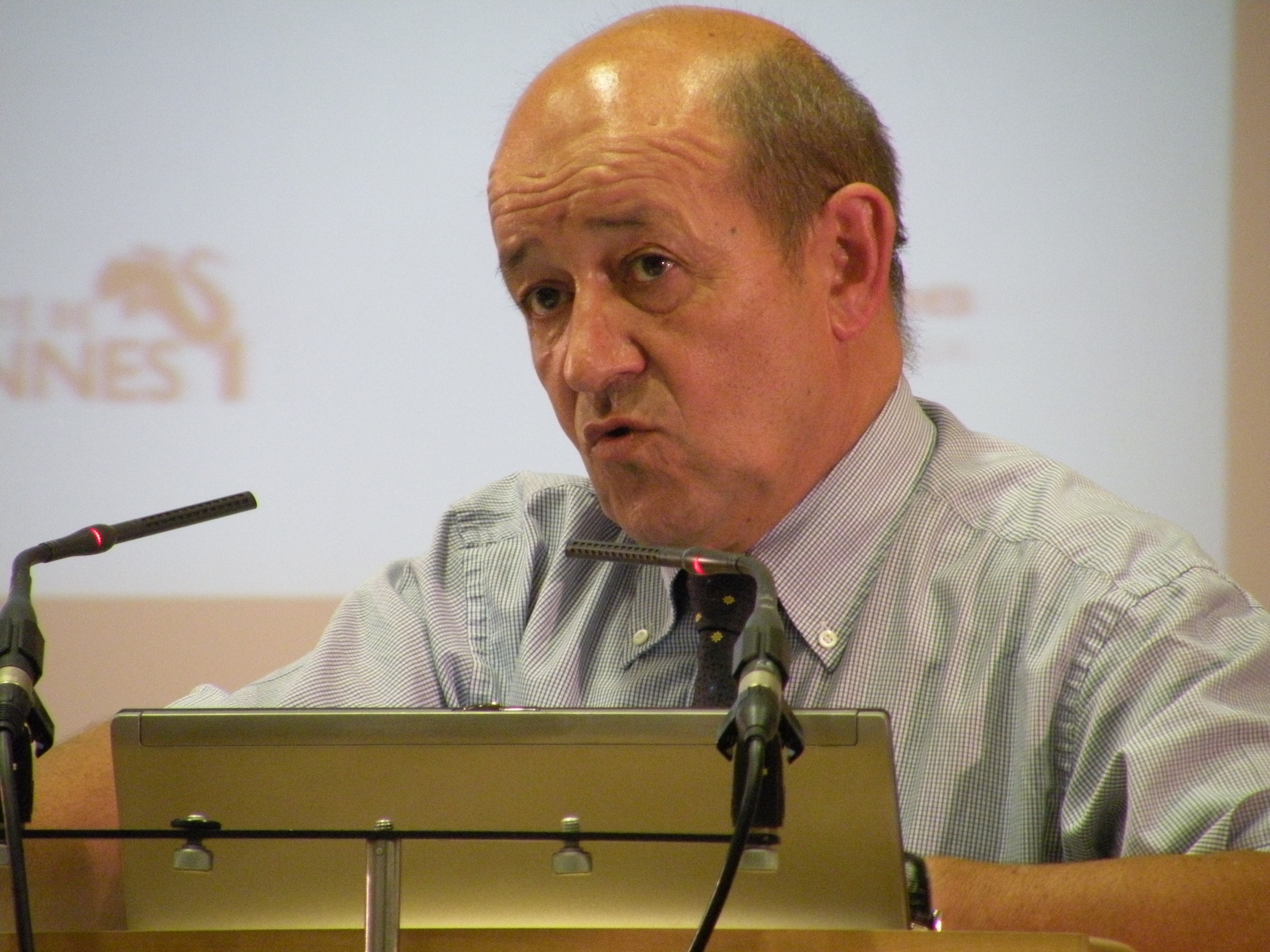 Jean-Yves Le Drian, president of the regional council of Bretagne, during the opening of les étés TIC in Rennes on 1st July 2009